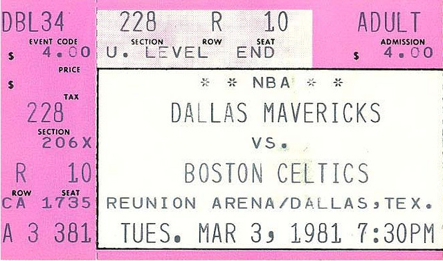 A ticket for a March 3, 1981 National Basketball Association game featuring the Boston Celtics versus the Dallas Mavericks at Reunion Arena.